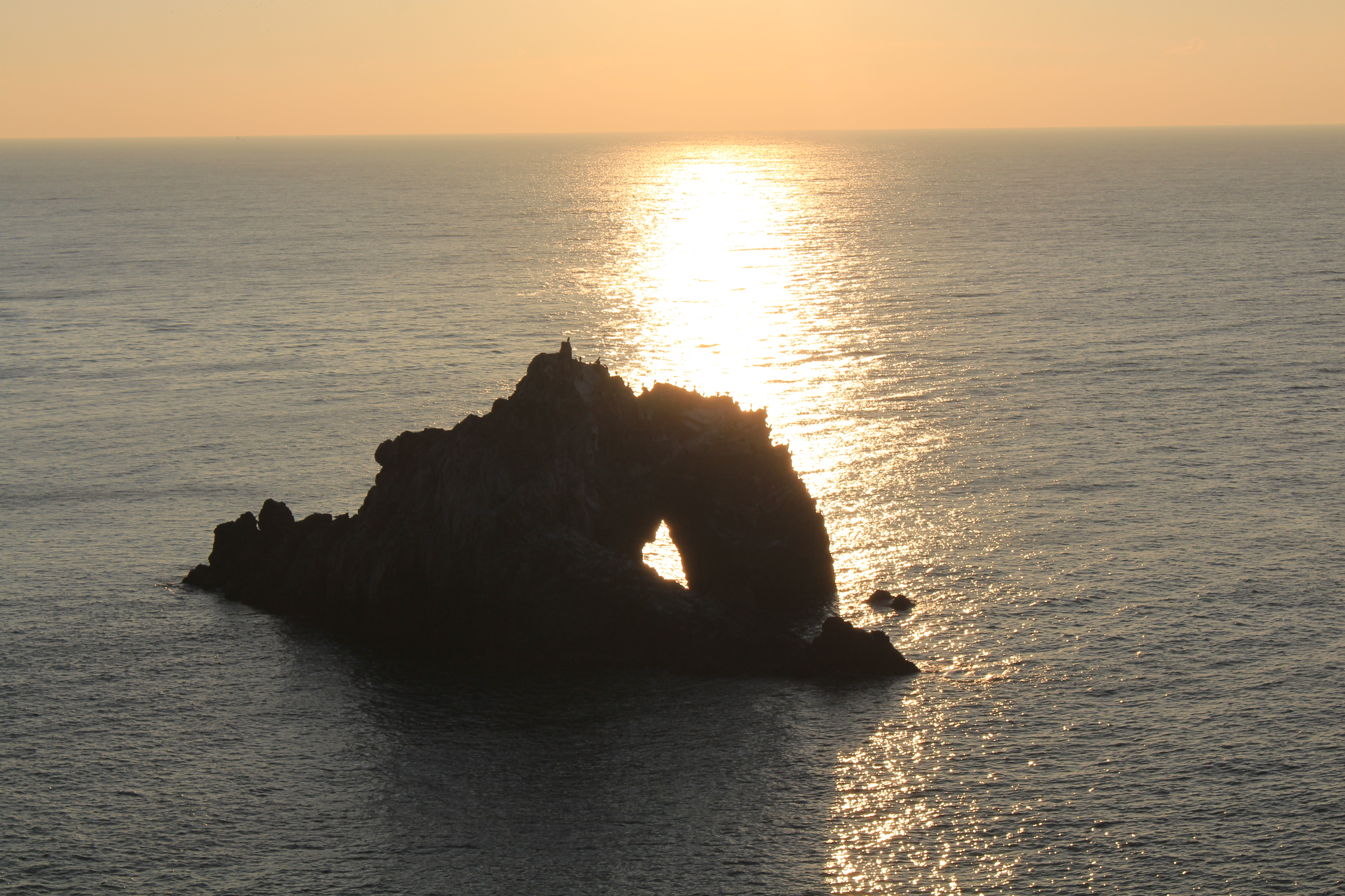 Hii Stone-gate and sunrise seen from Hii park in Tahara, Aichi prefecture, Japan.